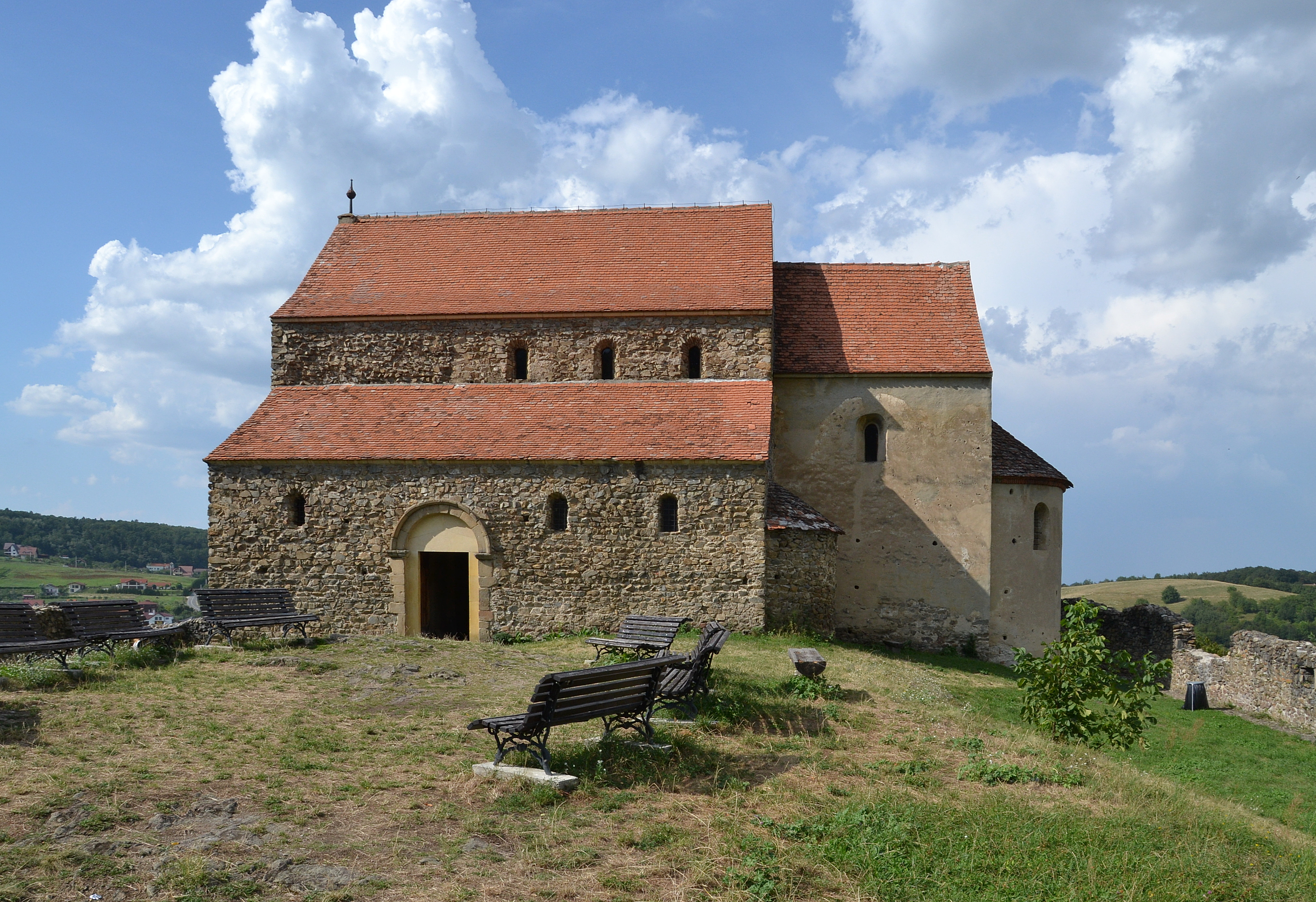 St Michael Romanesque Bazilica in Cisnădioara (Michelsberg), Romania Romani čhib: Biserica Sfântul Mihail din Cisnădioara